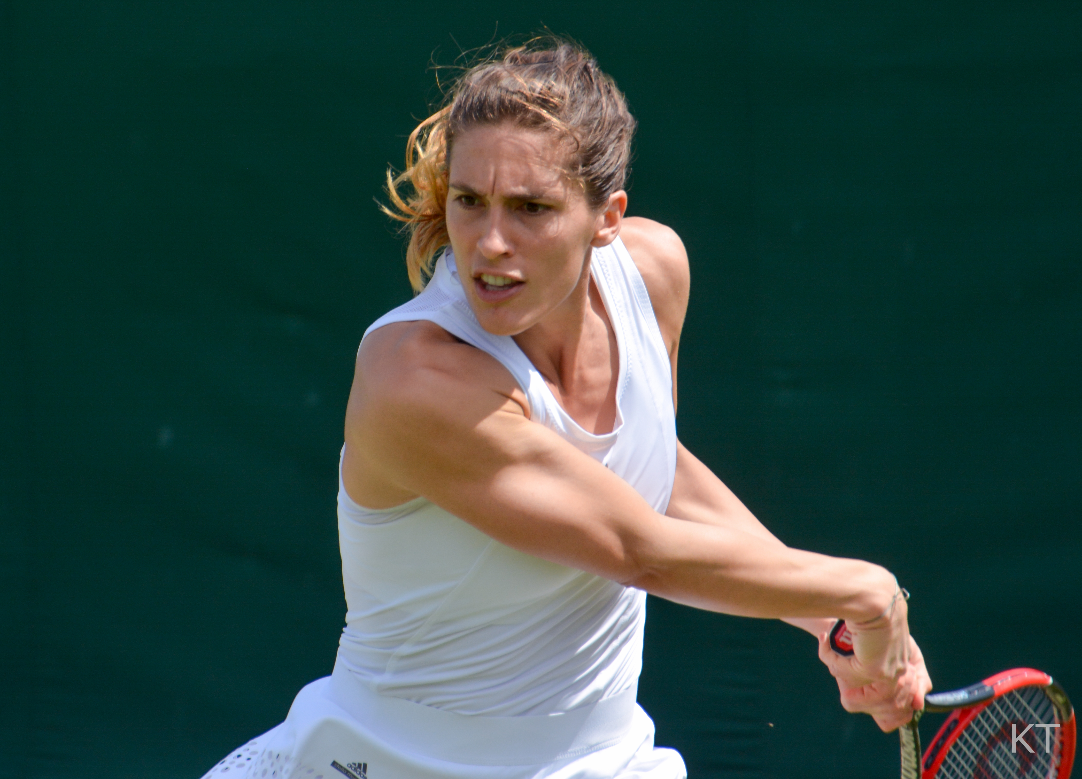 Middle Sunday of Wimbledon 2016.